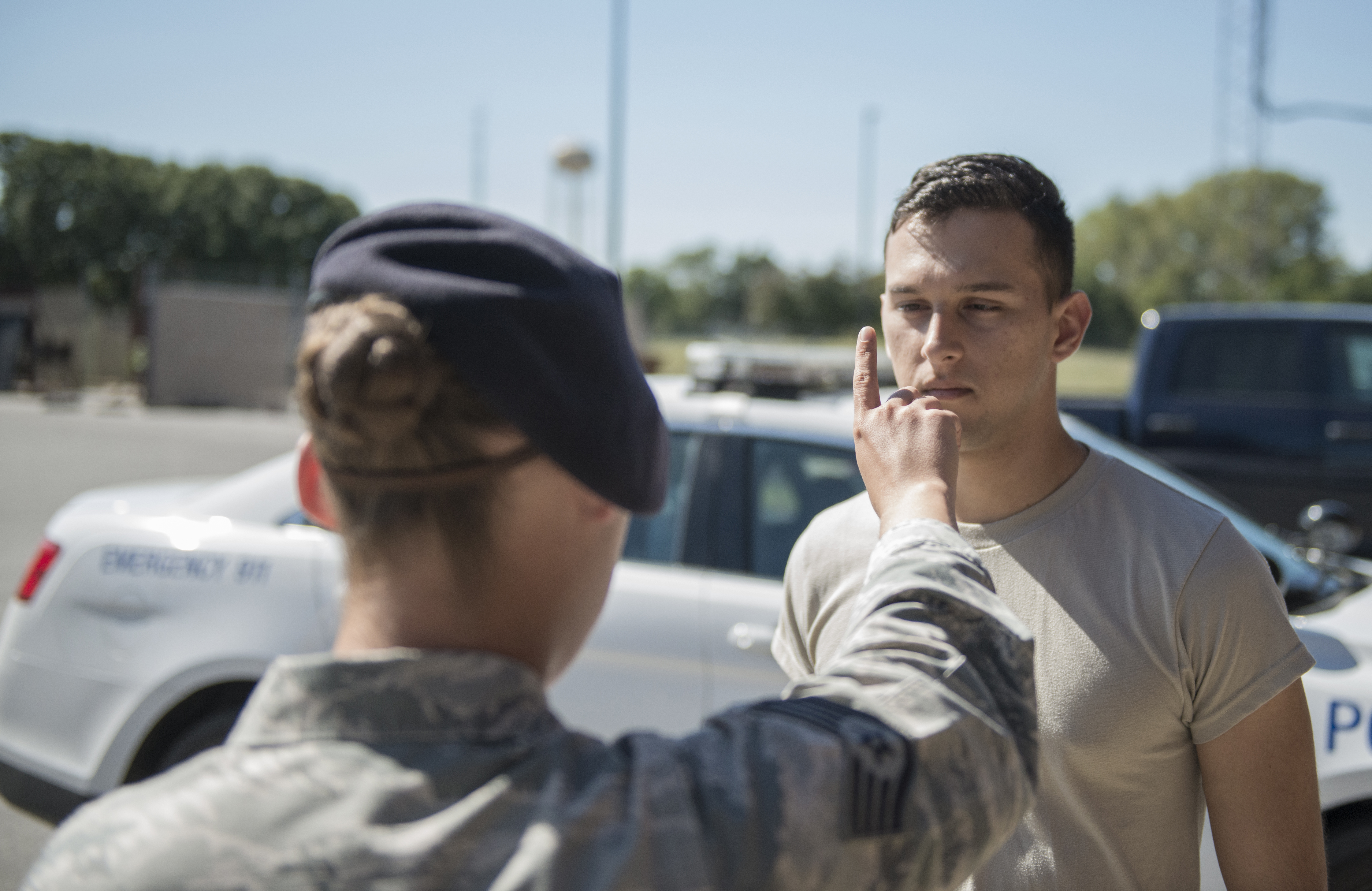 U.S. Air Force Staff Sgt. Devin Pope, 509th Security Forces Squadron (SFS) training instructor, left, demonstrates the Horizontal Gaze Nystagmus (HGN) test with Airman 1st Class John Cabral, 509th SFS member, at Whiteman Air Force Base, Mo., Sept. 30, 2016. As part of Standard Field Sobriety Test used by SFS when a driver is suspected of driving under the influence of alcohol or drugs, patrolmen carry out HGN tests during which they check a driver’s eyes for indications of impairment. (U.S. Air Force photo by 1st Lt. Matthew Van Wagenen) Unit: 509th Bomb Wing Public Affairs Whiteman Air Force Base DVIDS Tags: B-2; Deterrence; SFS; Security Forces; 509th Bomb Wing